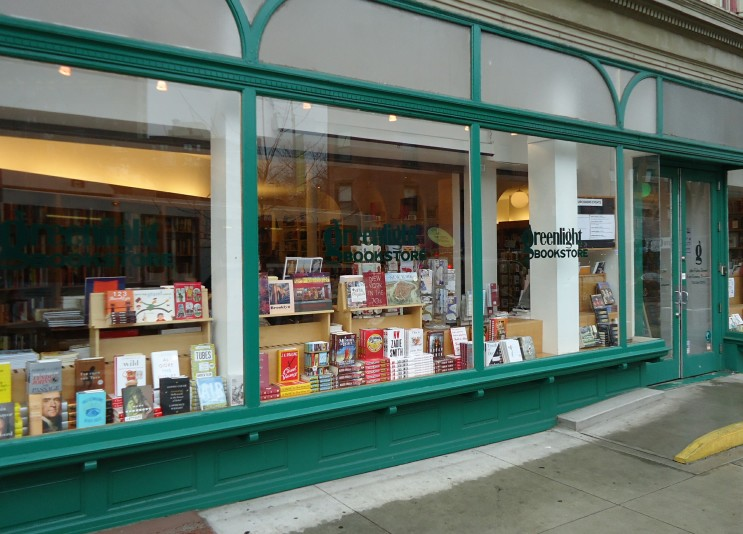 Bookstore in Brooklyn, New York, along Fulton Avenue.